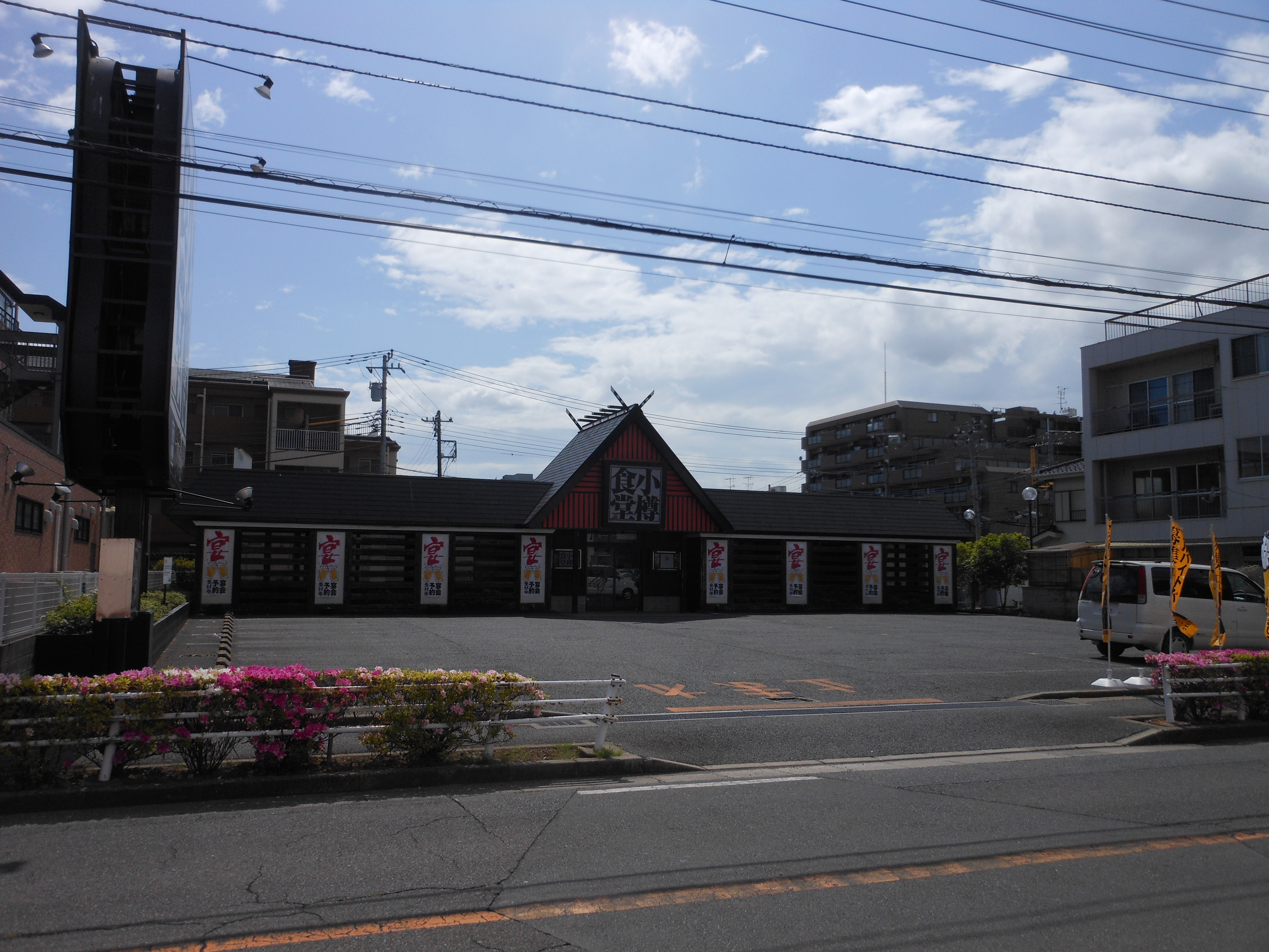 This is the Hokkaido Dining Otaru ShokudoChiba-Nagareyama Shop in Nagareyama, Chiba, Japan.